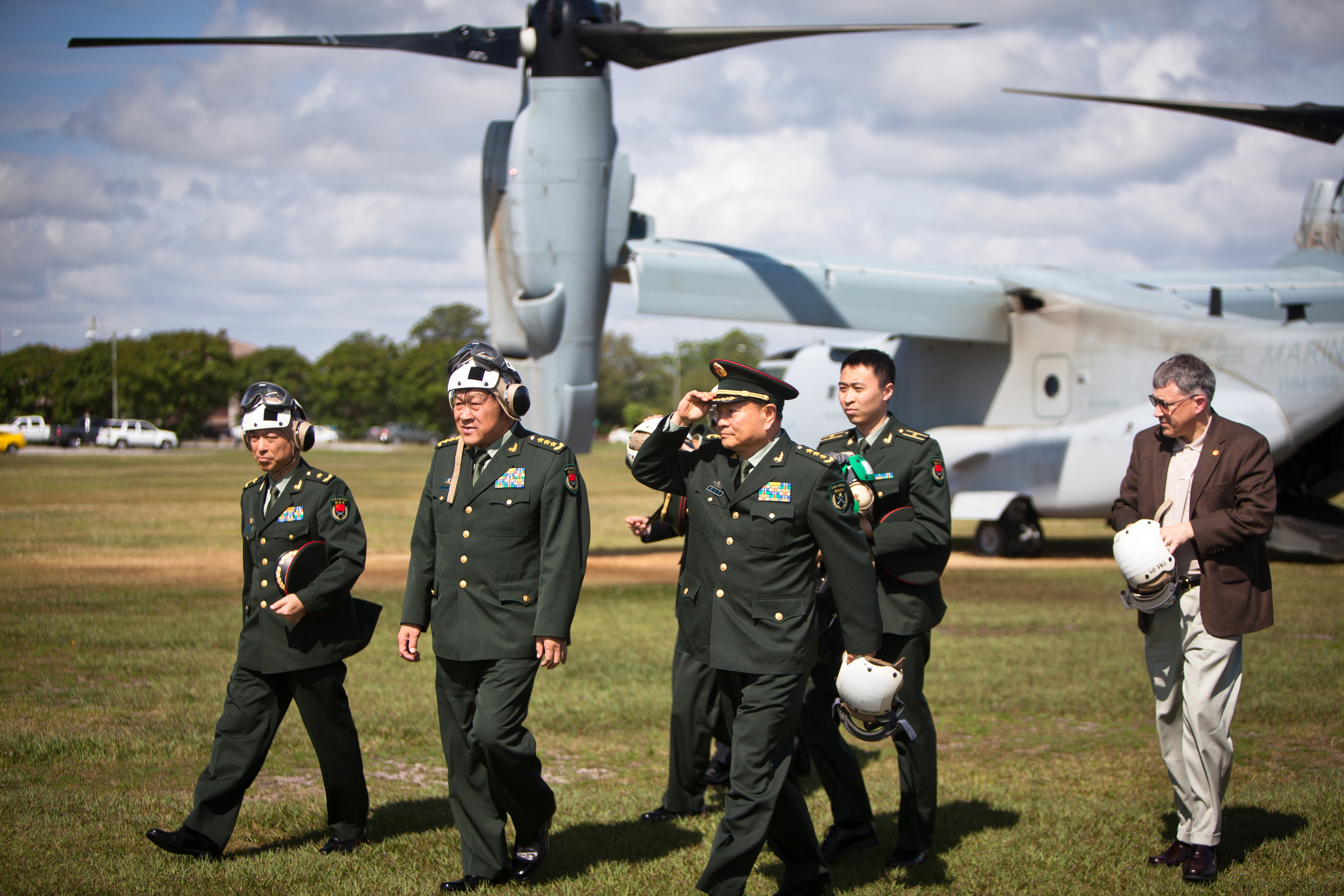 The People’s Republic of China Minister of National Defense Gen. Liang Guanglie (second from left) visits Marine Corps Base Camp Lejeune, N.C., May 9. During the visit, II MEF Marines showcased several Marine Corps vehicles and equipment sets to highlight the Corps’ emphasis on training and professional development and its capabilities and role in U.S. and global security. Liang and the rest of the Chinese delegation are in the midst of a tour of several military installations on the East and West Coasts at the invitation of U.S. Secretary of Defense Leon Panetta. The purpose of these visits is to highlight the improvement of the U.S.’s capacity to cooperate in areas of mutual interest, such as humanitarian assistance and disaster relief, and addressing non-traditional and transnational security threats and counter-piracy.